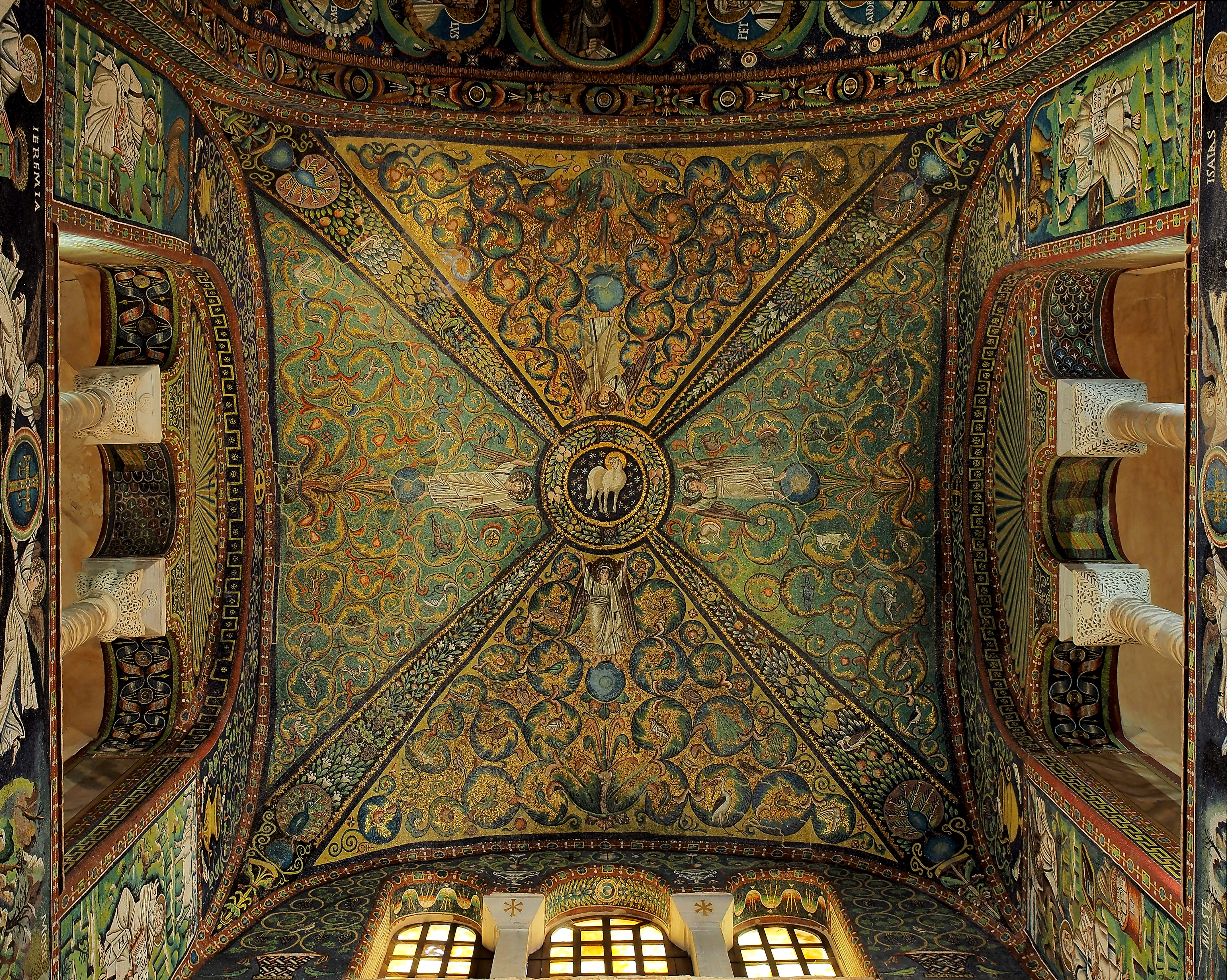 Lamb of God mosaic in presbytery of Basilica of San Vitale (built A.D. 547) Ravenna, Italy. UNESCO World heritage site. This photograph was taken with an Olympus E-P5